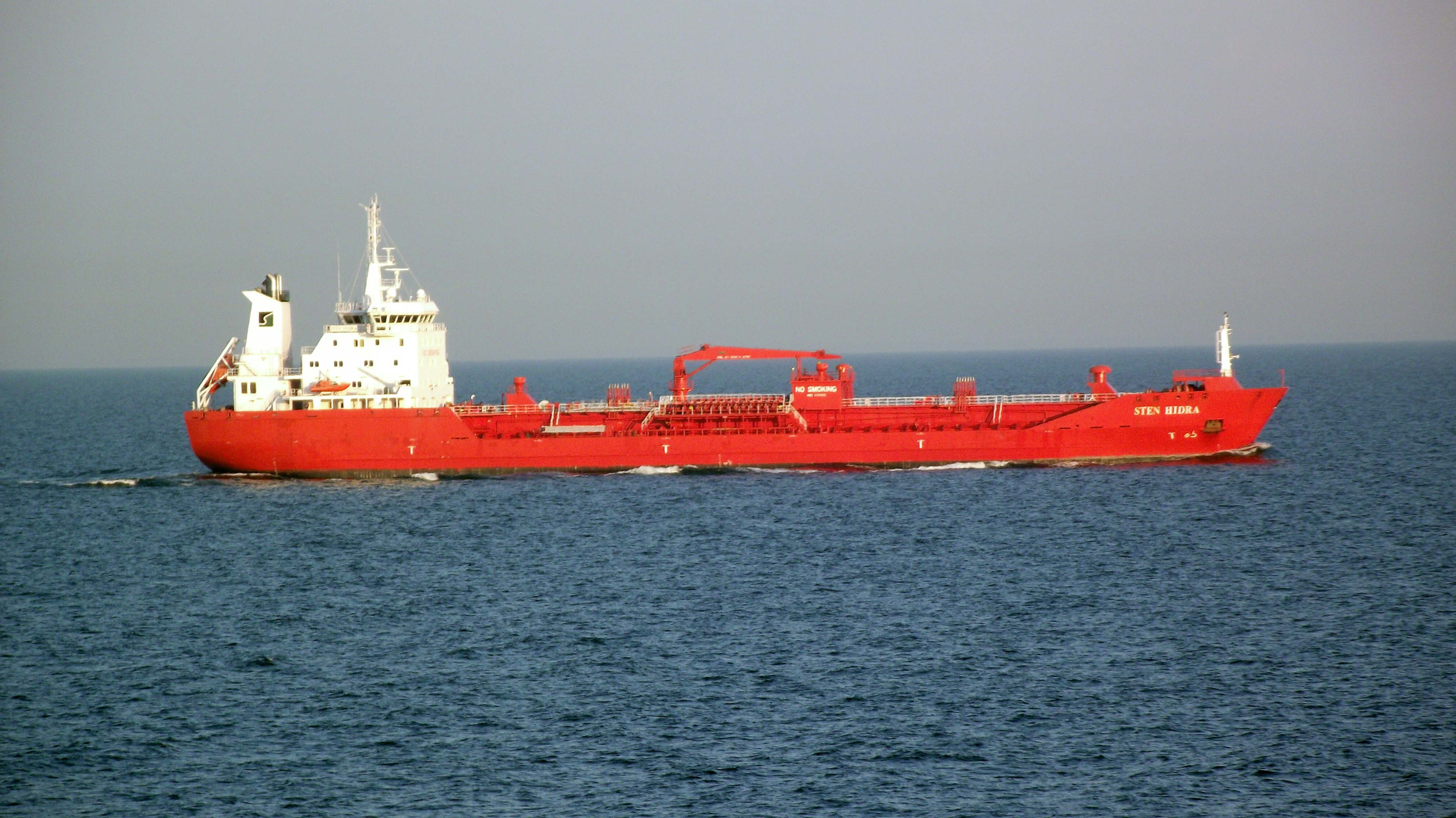 The Norwegian Sten Hidra tanker (IMO 9358931) at sea of the coast of Helsinki. Picture taken from the finnlines ferry (Helsinki Gydnia).